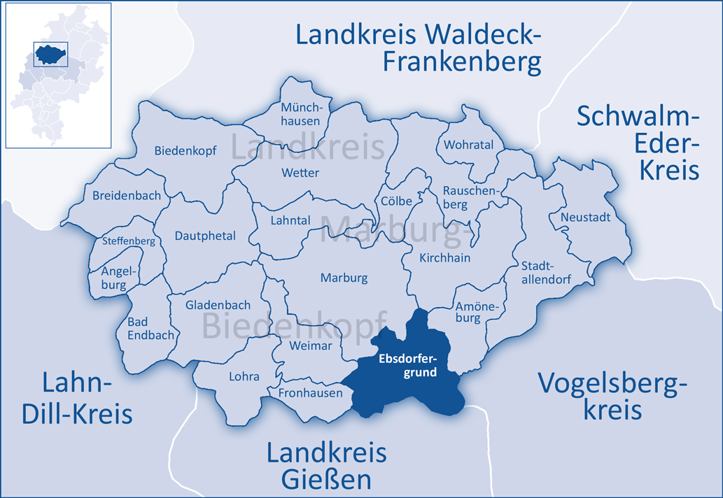 The map shows the municipal territory of Ebsdorfergrund in the district of Marburg-Biedenkopf.